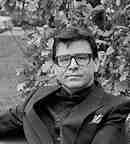 Photographer: Ivaan Kotulsky 1992 City of Toronto Archives This image is available from the City of Toronto Archives, listed under the archival citation Series 1907, File 39, Item 1. This tag does not indicate the copyright status of the attached work. A normal copyright tag is still required. See Commons:Licensing for more information.